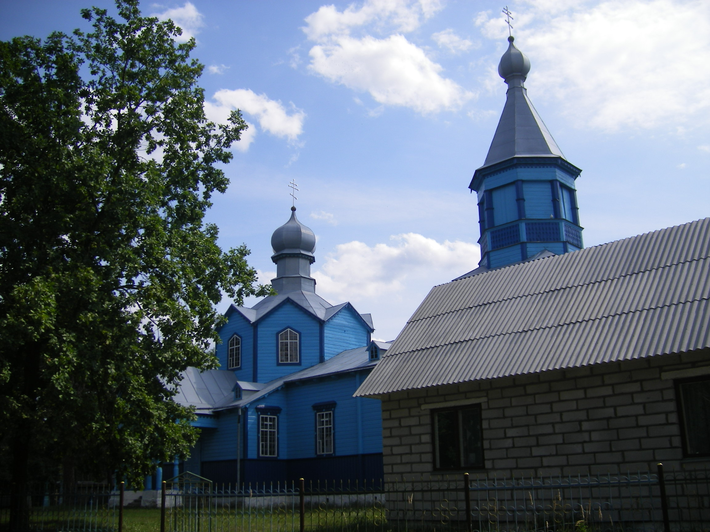 Damacheva, St. Lucas Church